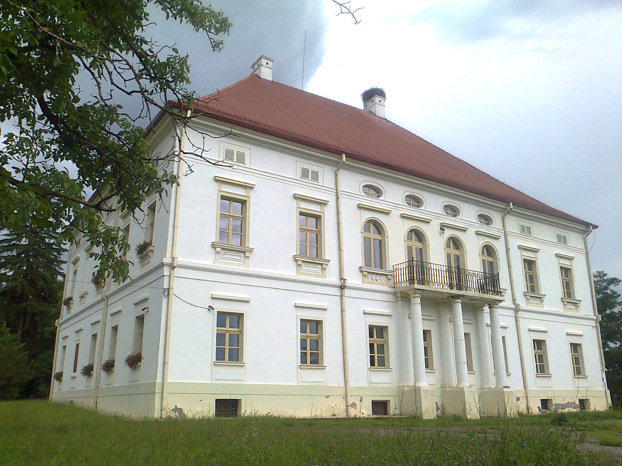 Rhédey Castel in Sângeorgiu de Pădure (Romania)